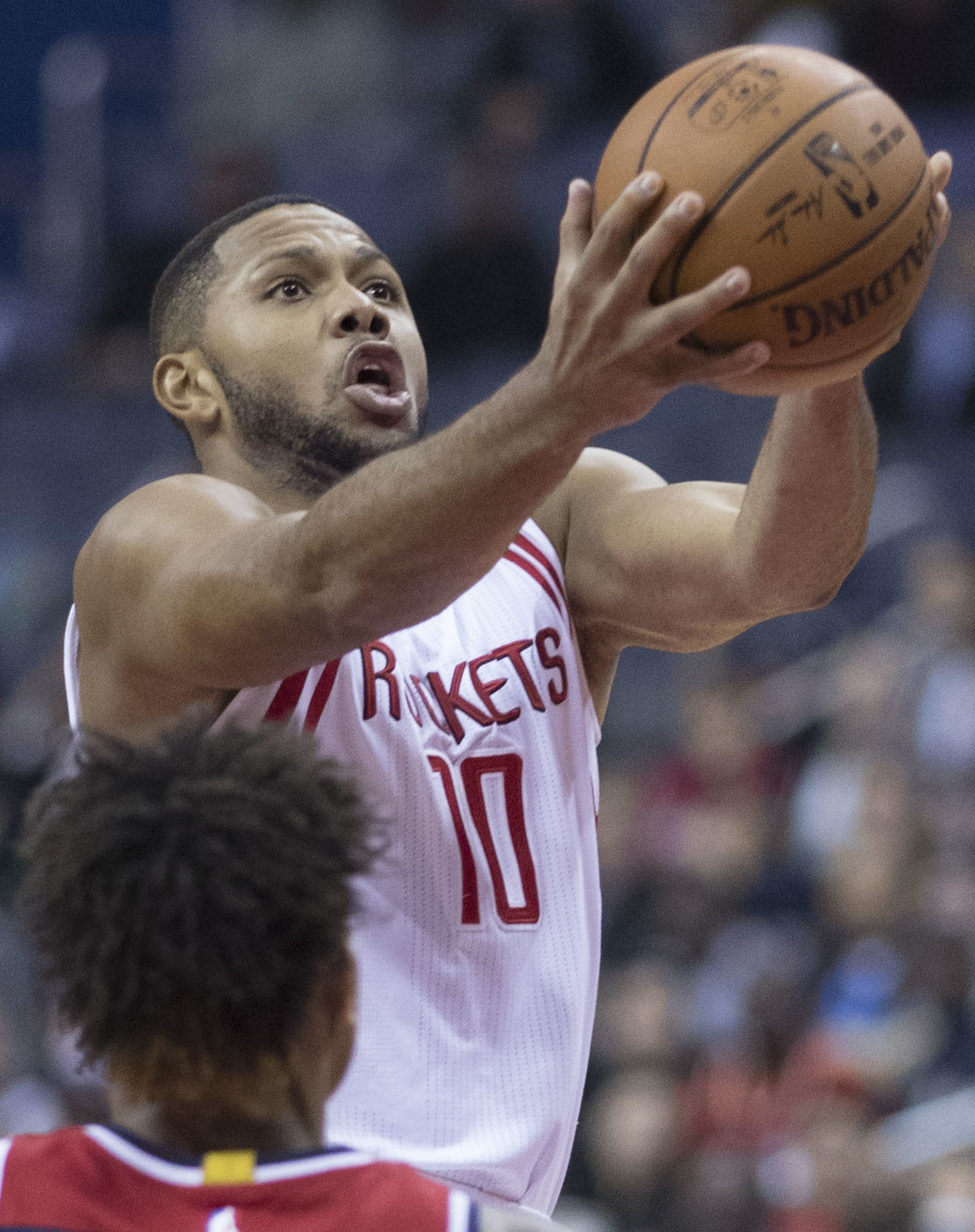 Rockets at Wizards 11/7/16